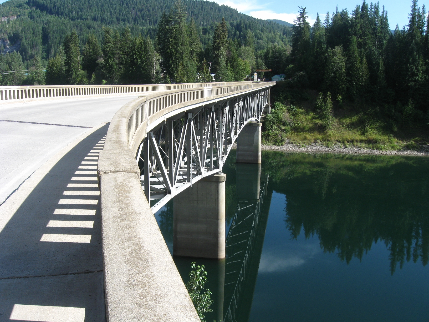 I just went into the town on east side of river. I went to Gardner Cave and Boundary Dam on west side of river.